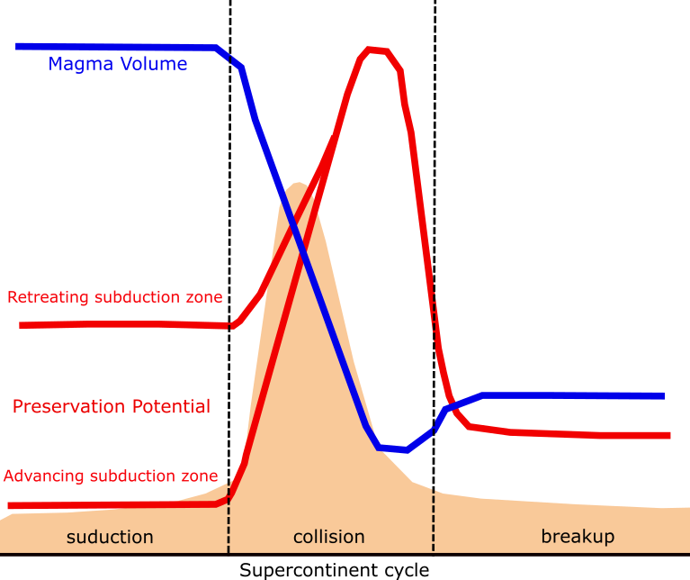 Modified from Hawkesworth, C., Cawood, P., Kemp, T., Storey, C., & Dhuime, B. (2009). A matter of preservation. Science, 323(5910), 49-50.